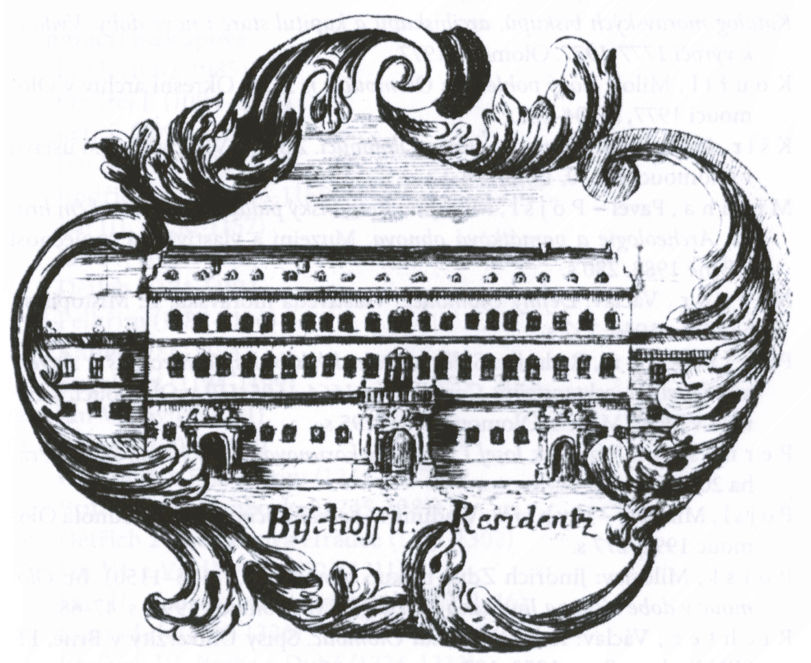 Baroque engraving of bishop´s palace in Olomouc, 1740